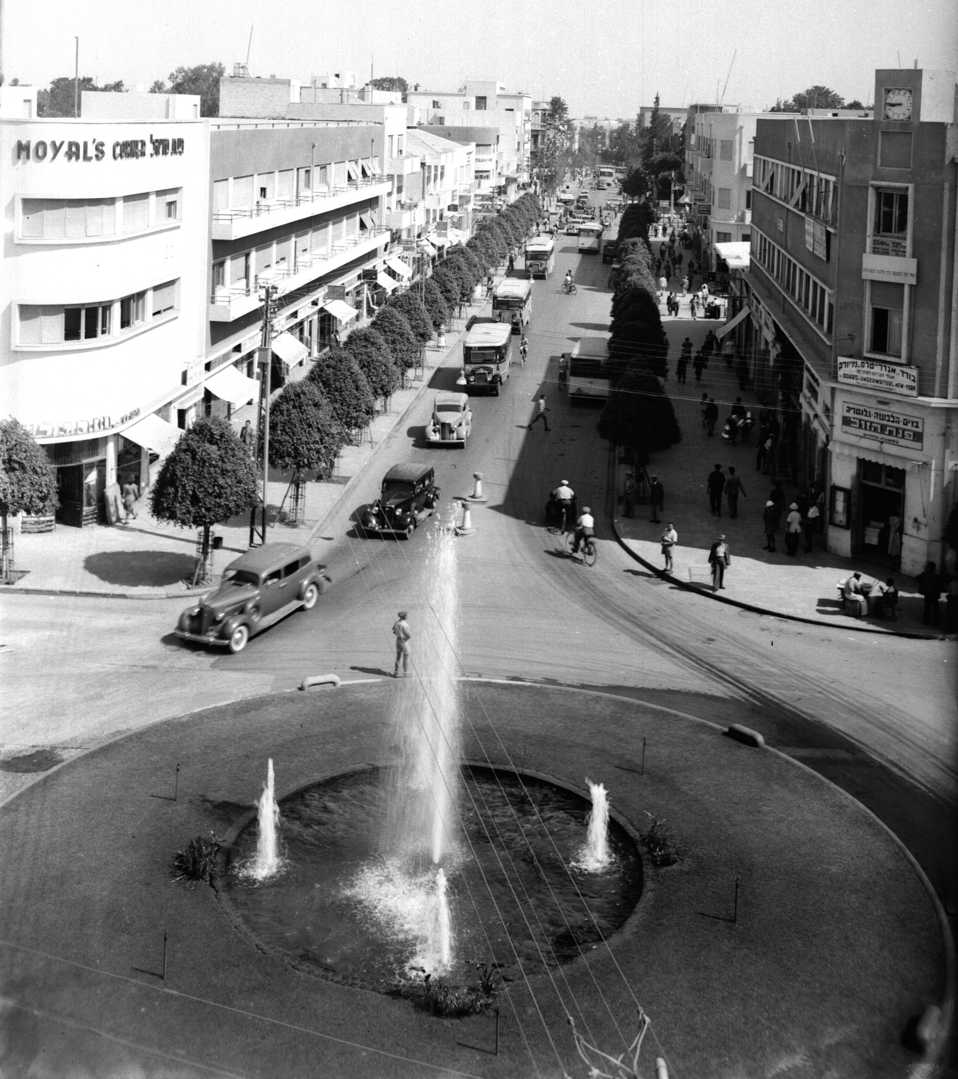 FOUNTAIN AT HA-MOSHAVOT SQUARE AND ALLENBY STREET IN TEL AVIV. כיכר המושבות ורחוב אלנבי בתל אביב.